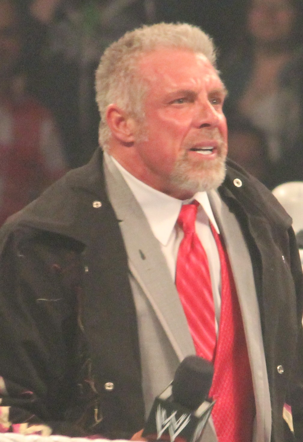 The Ultimate Warrior in his last appearance on RAW